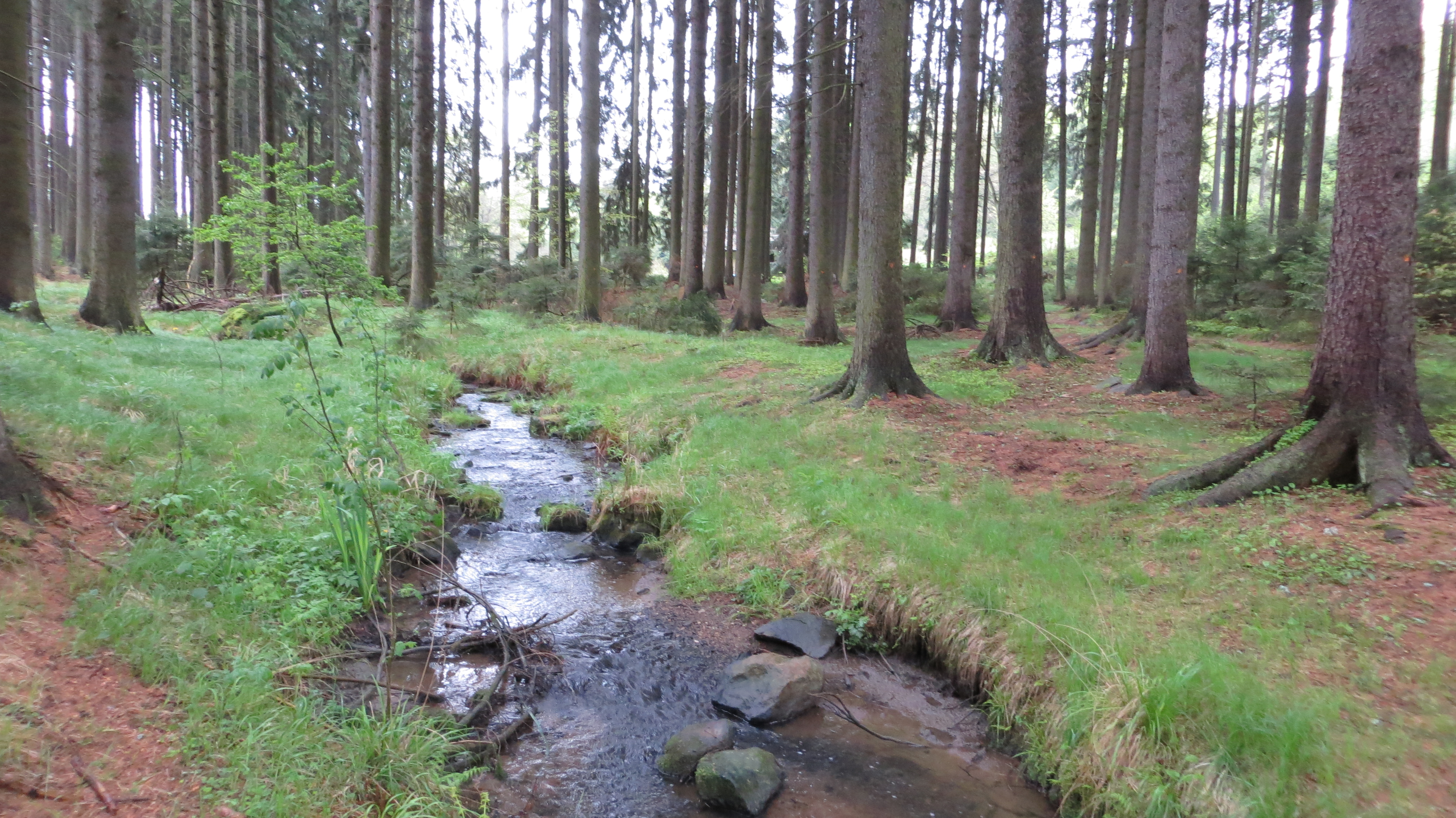 Hejnický stream near U Vlka in Staré Bříště, Pelhřimov District.